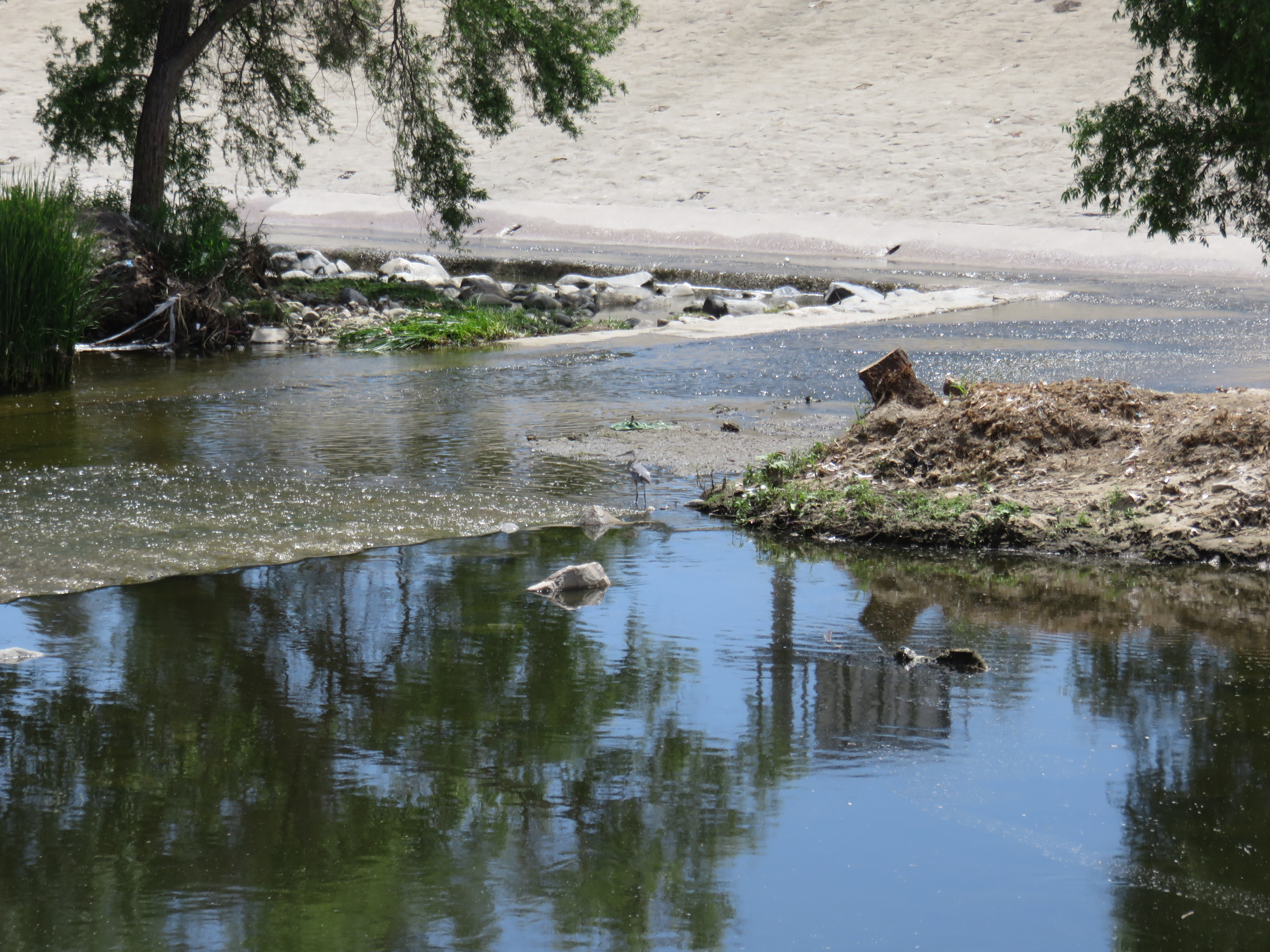 Bird (possibly a heron) in the Glendale Narrows of the Los Angeles River in 2019